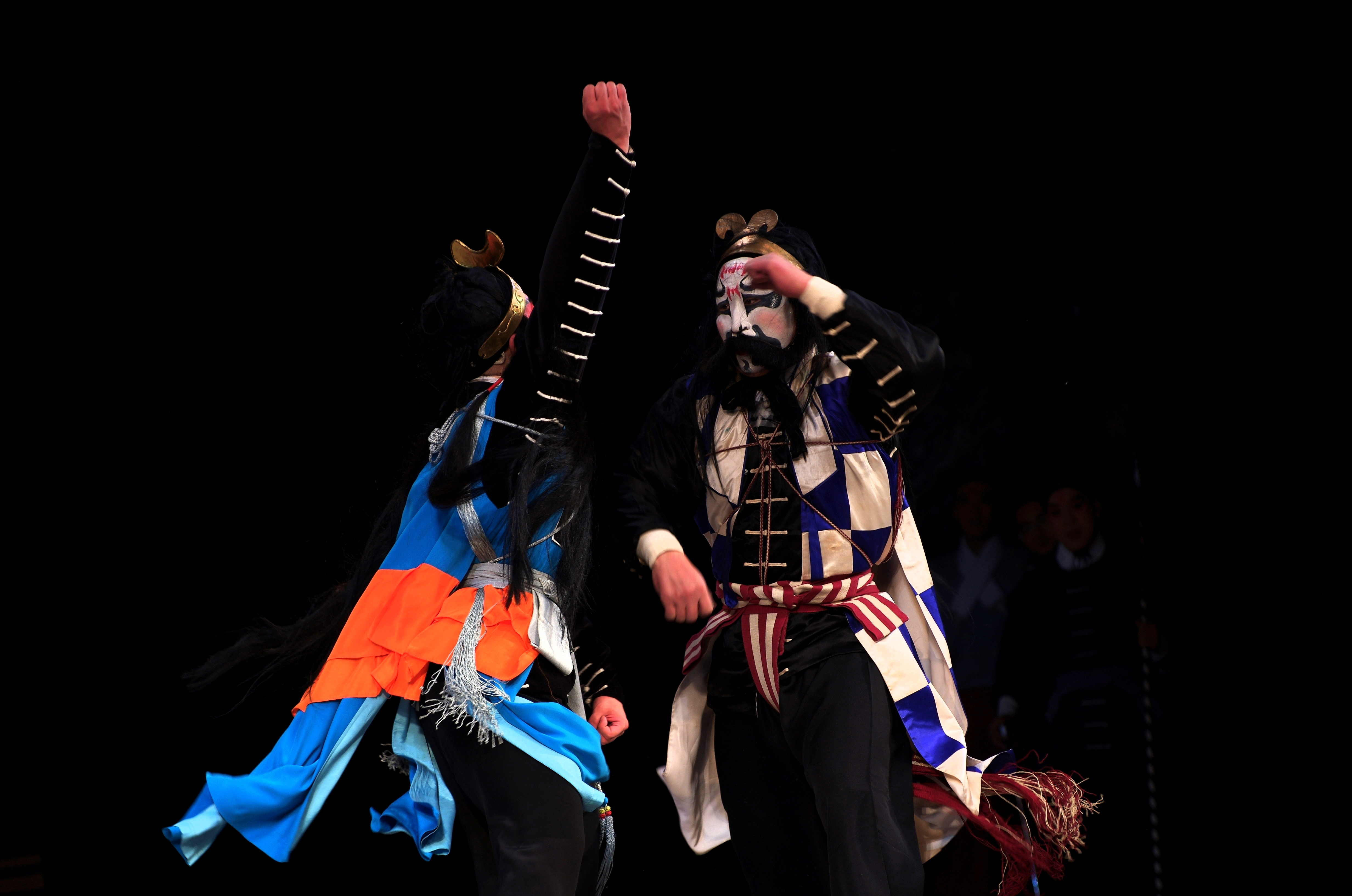 A Peking opera performance in Tianchan Theatre by Shanghai Jingju Theatre Company, starring Guo Shiming (郭士铭) as Wu Song.